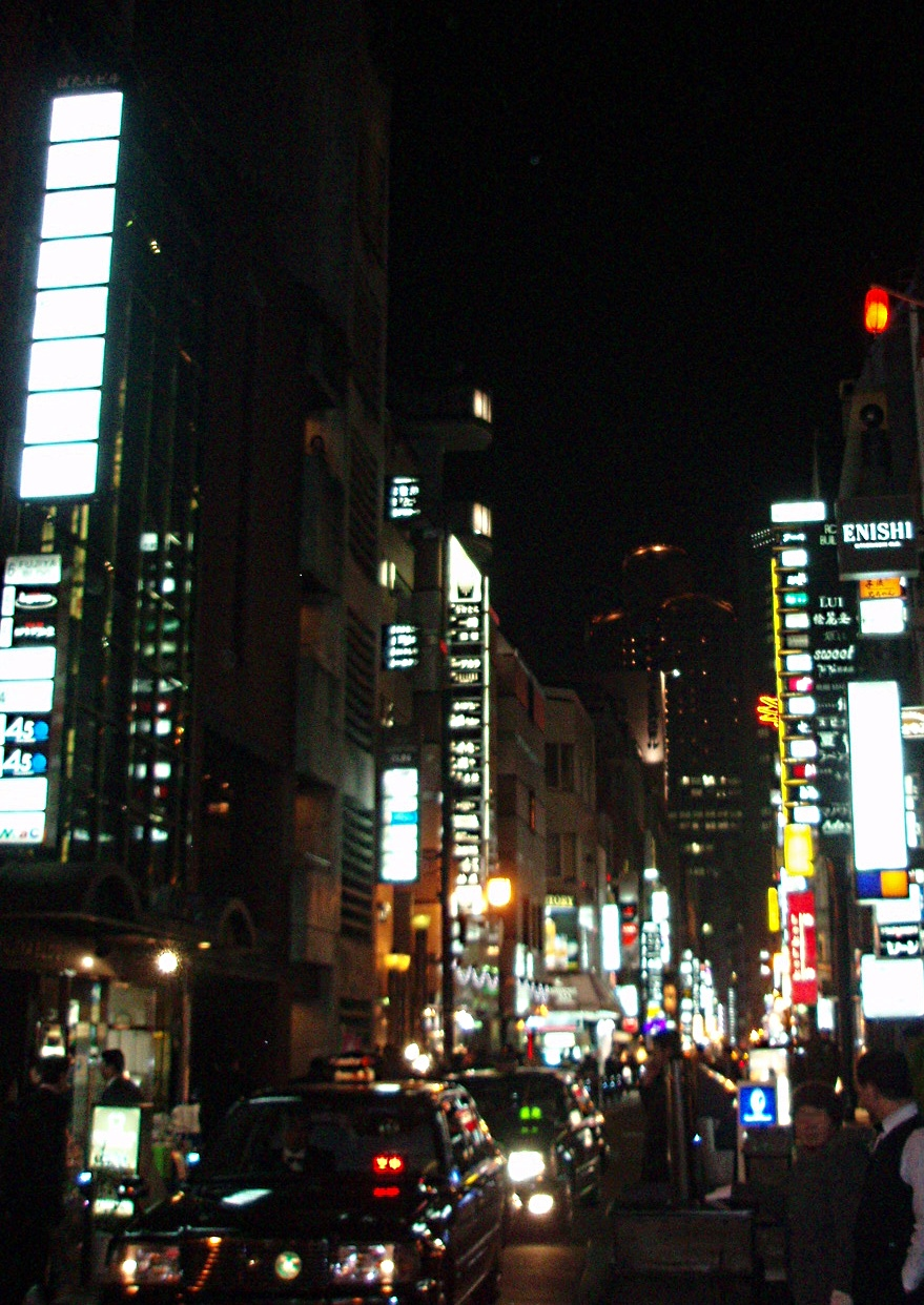 Kita-shinchi (Kita-ku, Osaka ,Japan)